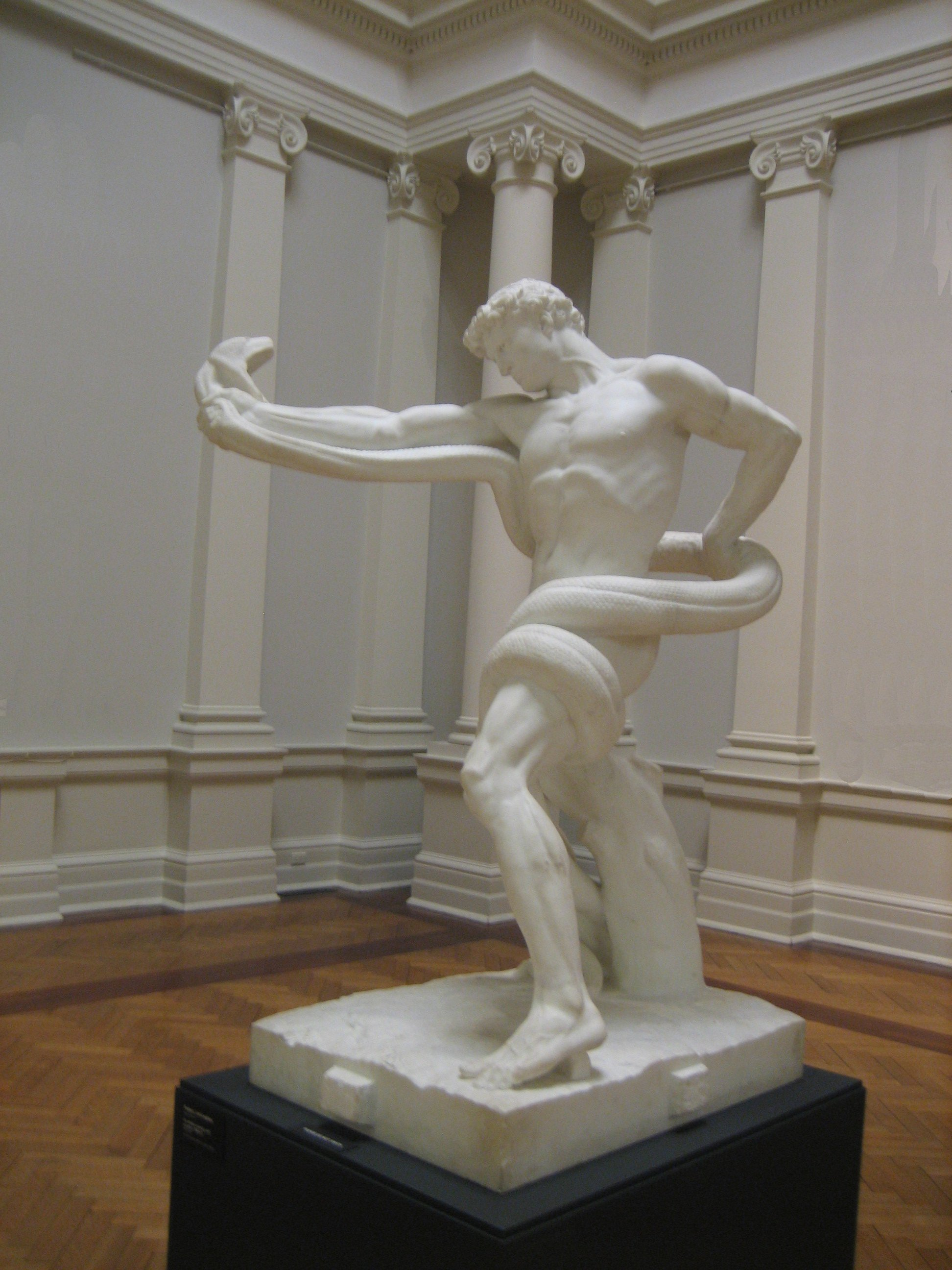 An athlete wrestling with a python, white marble sculpture by Frederic, Lord Leighton, 1888-1891, private collection